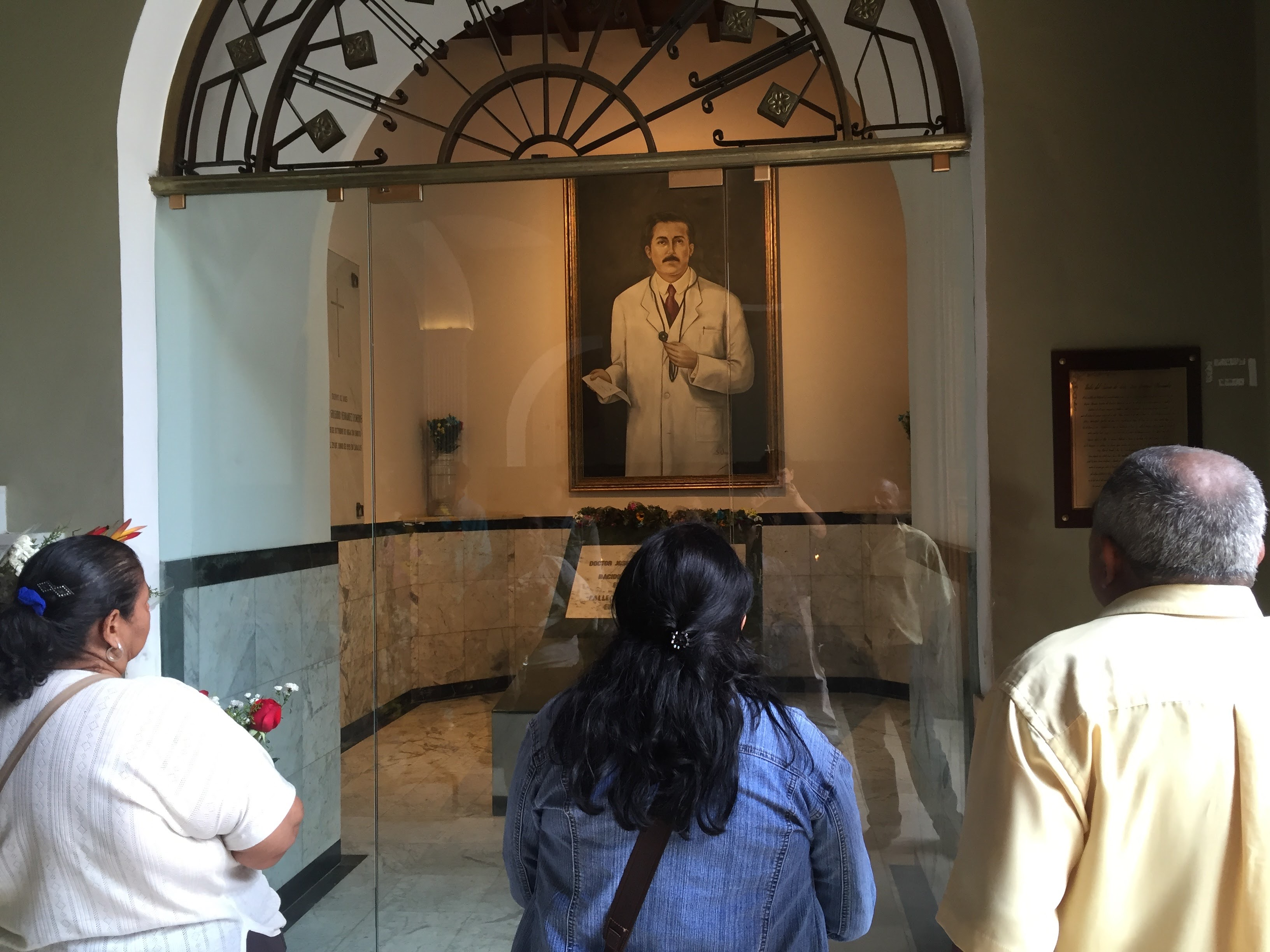 Tumba de José Gregorio Hernández en la Iglesia de Nuestra Señora de la Candelaria, Caracas.